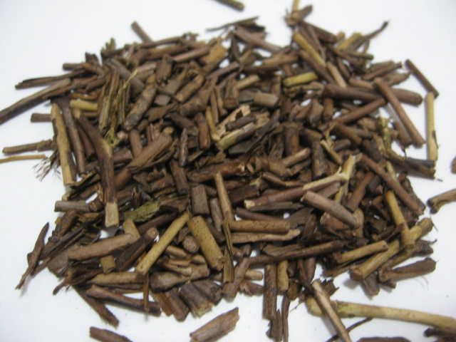 A kind of Japanese green tea -a roasted tea leaves. The image shows karigane-hojicha, which is also known as bou-hojicha or kuki-hojicha.